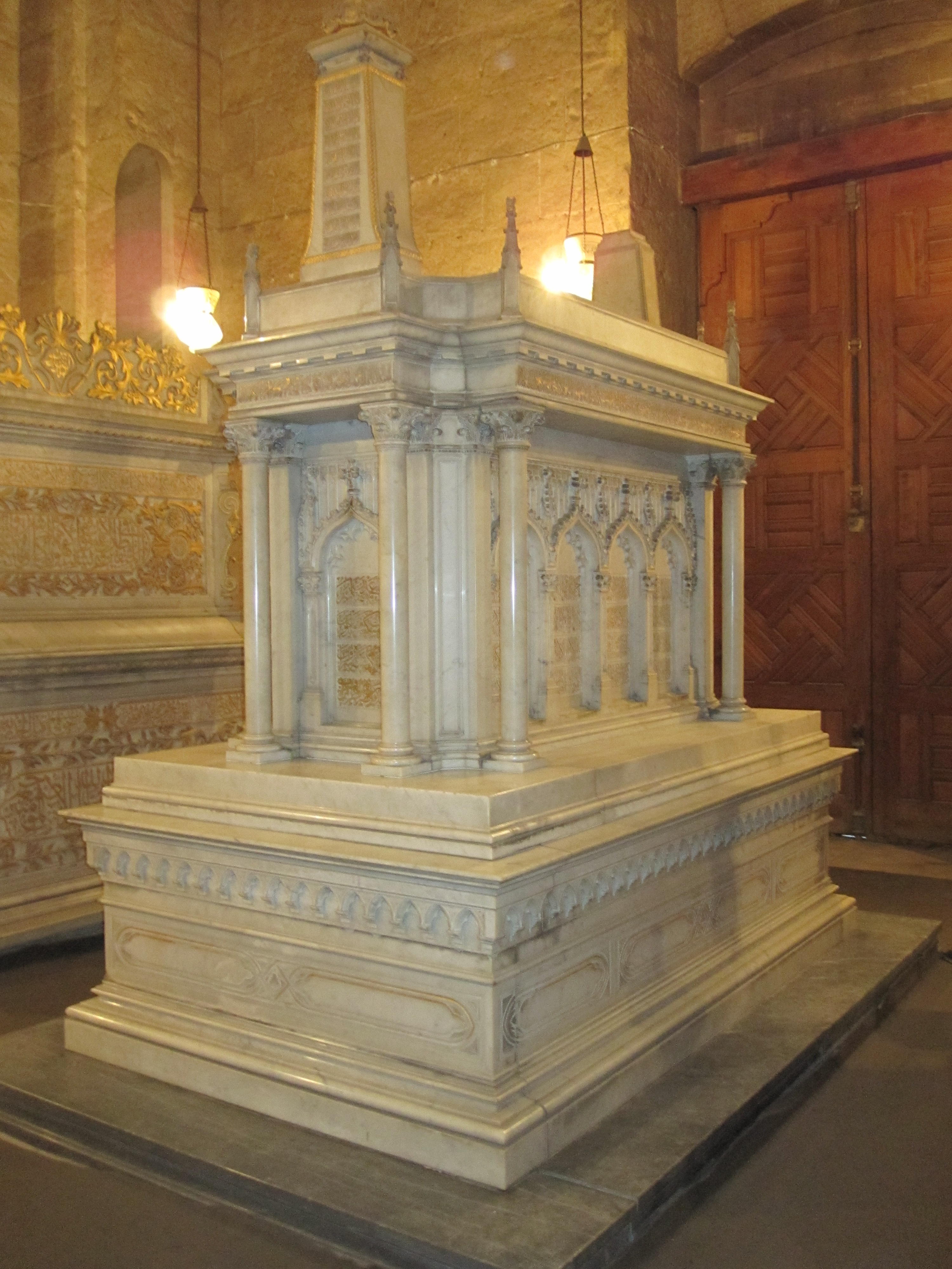 Tomb of Djananiar Hanem (died in 1912), one of the many wives of Khedive Isma'il Pasha of Egypt. She held the title of Second Princess. The tomb is located in the Rifa'i Mosque in Cairo, and has an unusual design that combines Islamic scripts with Christian crosses and Gothic arches. This reflects the fact that Djananiar Hanem was born as a French Christian but converted to Islam just before her death.